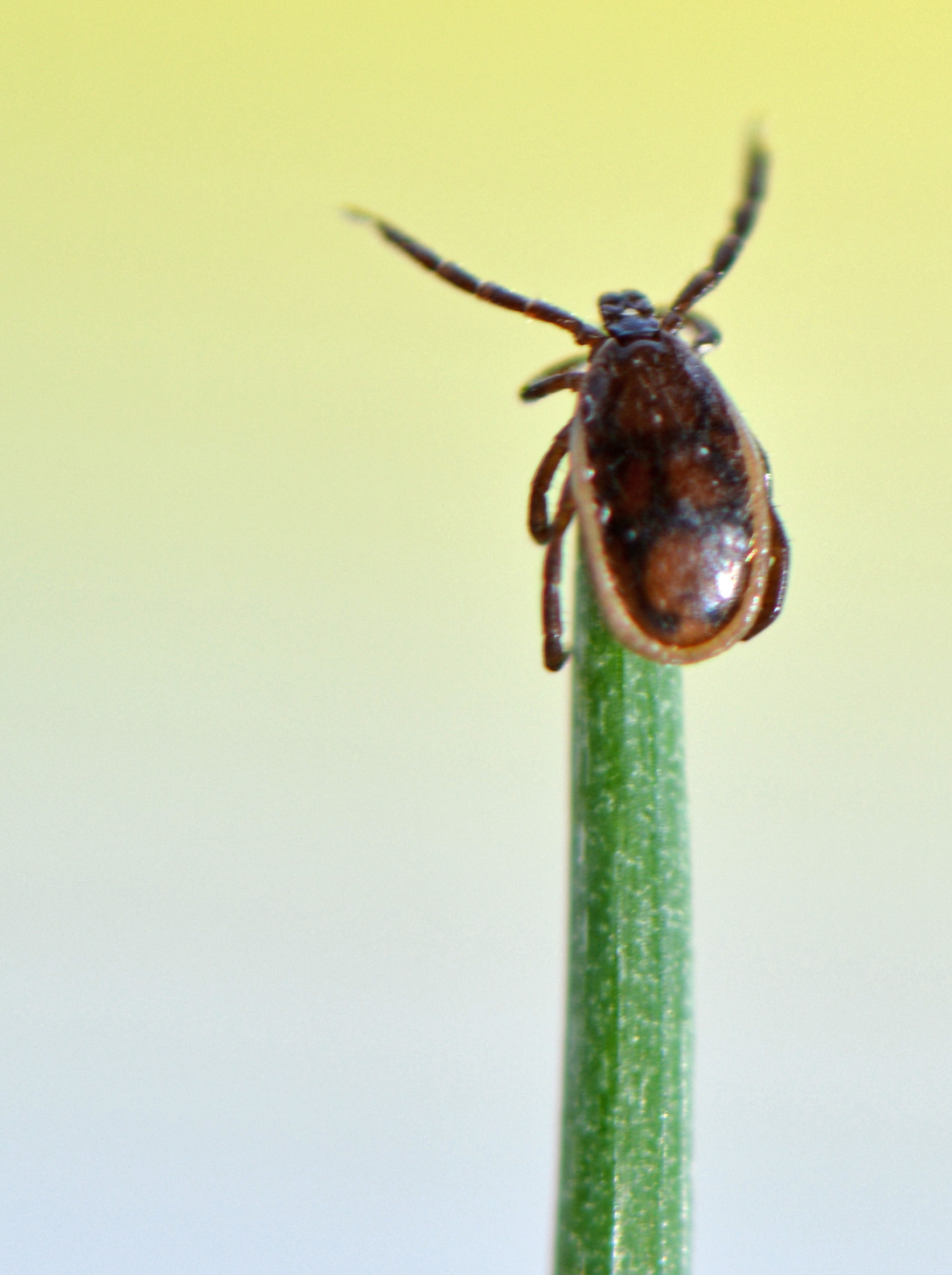 Male Tick Ixodes ricinus found in the forest of Flines-lès-Mortagne (northern France, near the Belgian border) July 2015